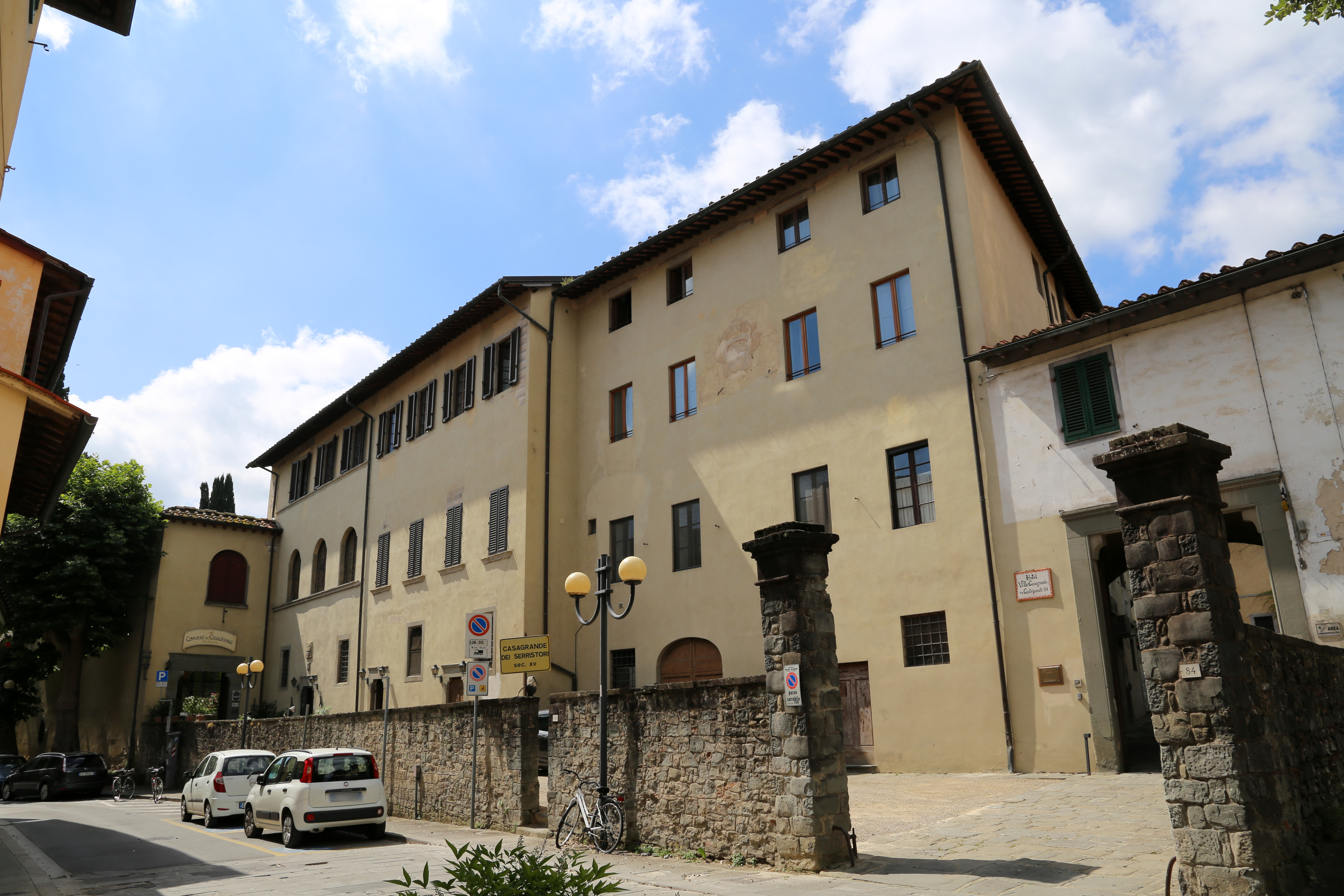 Villa Casagrande Serristori (Figline Valdarno)